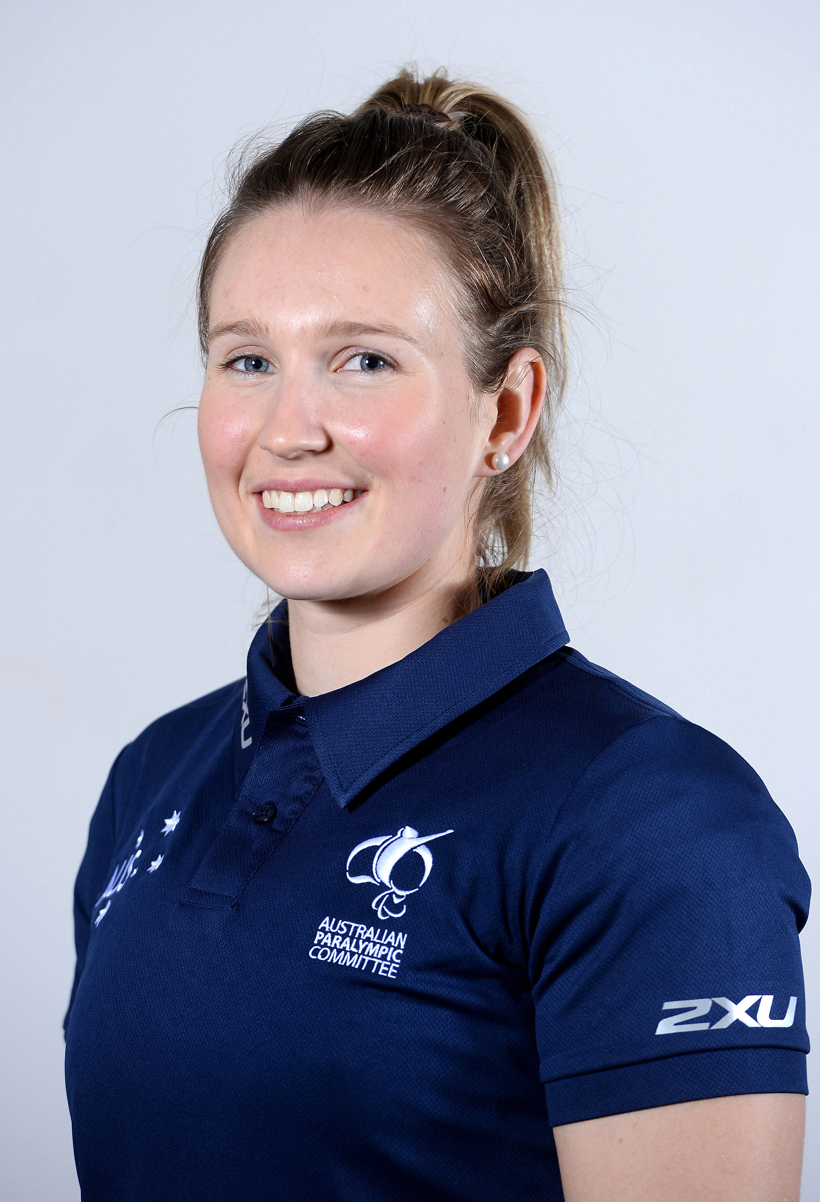 Portrait photograph of Melissa Tapper taken at team processing session for shadow members of 2016 Australian Paralympic team